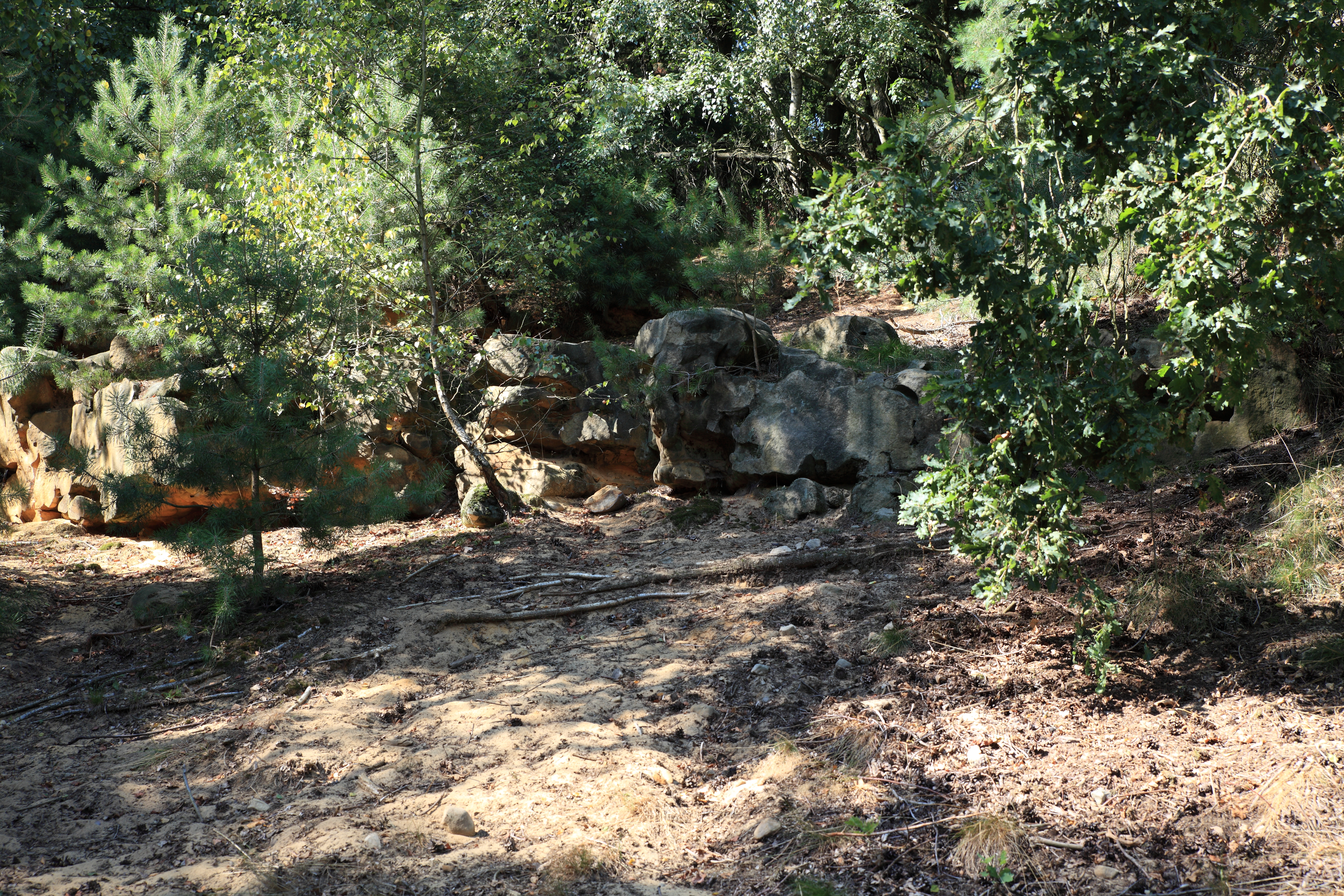 Fossilised sandstone (quartzite)